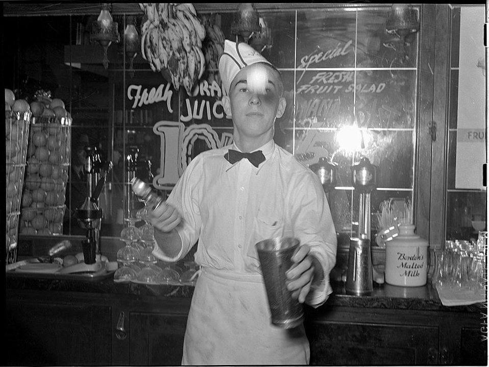 Lee, Russell, 1903-1986, photographer. Soda jerker flipping ice cream into malted milk shakes. Corpus Christi, Texas 1939 Feb. 1 negative : nitrate ; 3 1/4 x 3 1/4 inches or smaller. Notes: Title and other information from caption card. Transfer; United States. Office of War Information. Overseas Picture Division. Washington Division; 1944. Subjects: Corpus Christi--Texas United States--Texas--Nueces County--Corpus Christi. Format: Nitrate negatives. Repository: Library of Congress, Prints & Photographs Division, Washington, DC 20540, Part Of: Farm Security Administration - Office of War Information Photograph Collection More information about the FSA/OWI Collection is available at Persistent URL: Call Number: LC-USF34- 032264-D